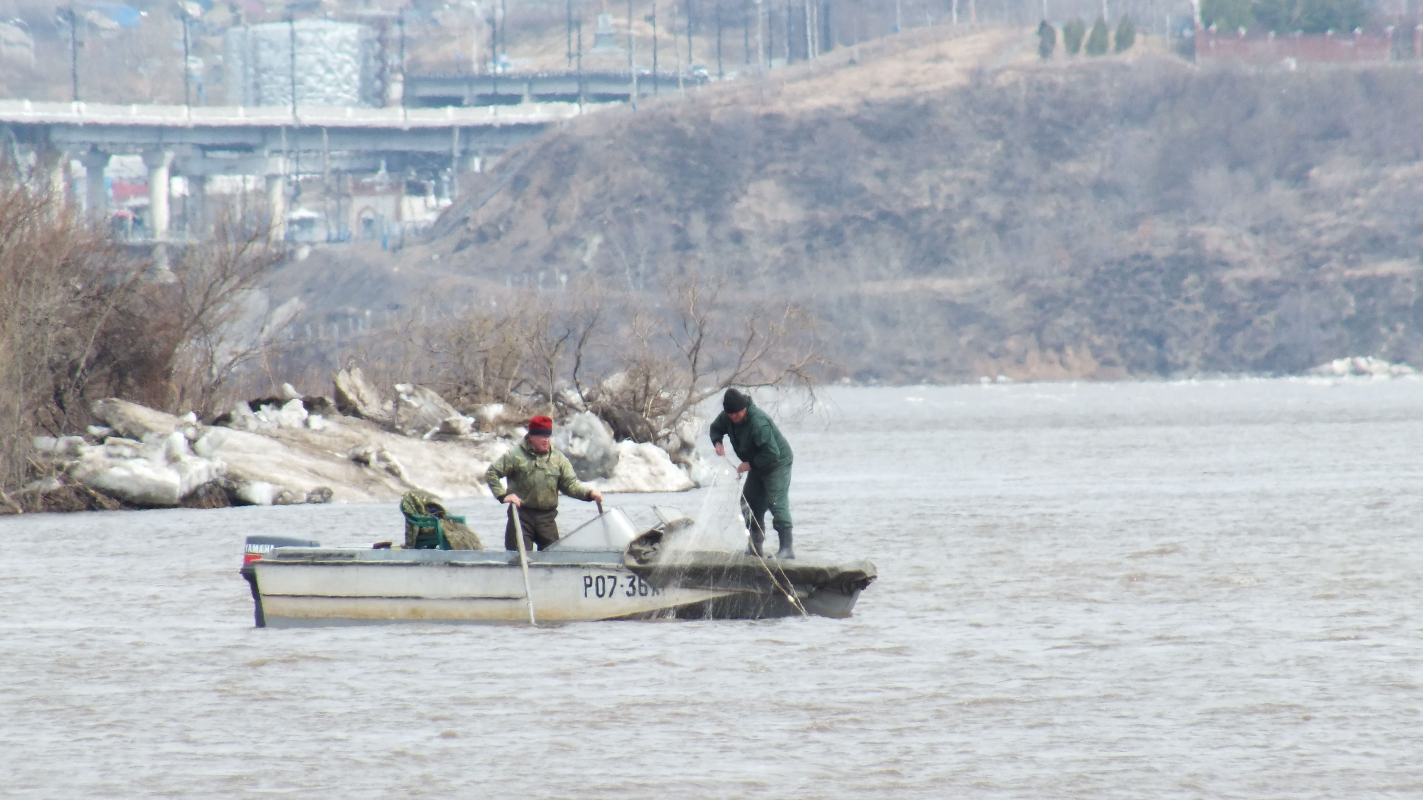 Браконьер вытягивает сплавную сеть